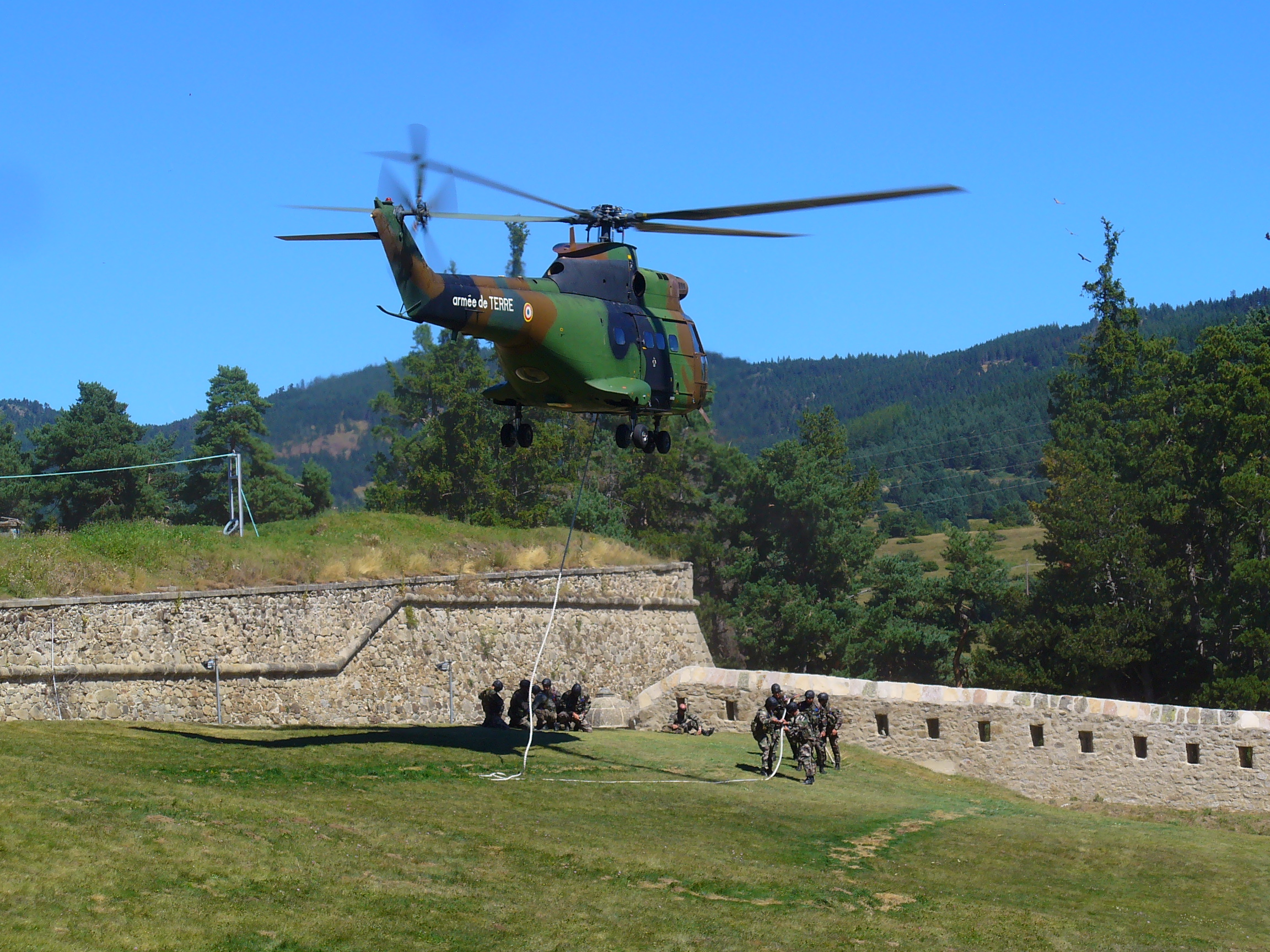 French Army Helicopter SA 330 Puma, Mt. Louis, France.